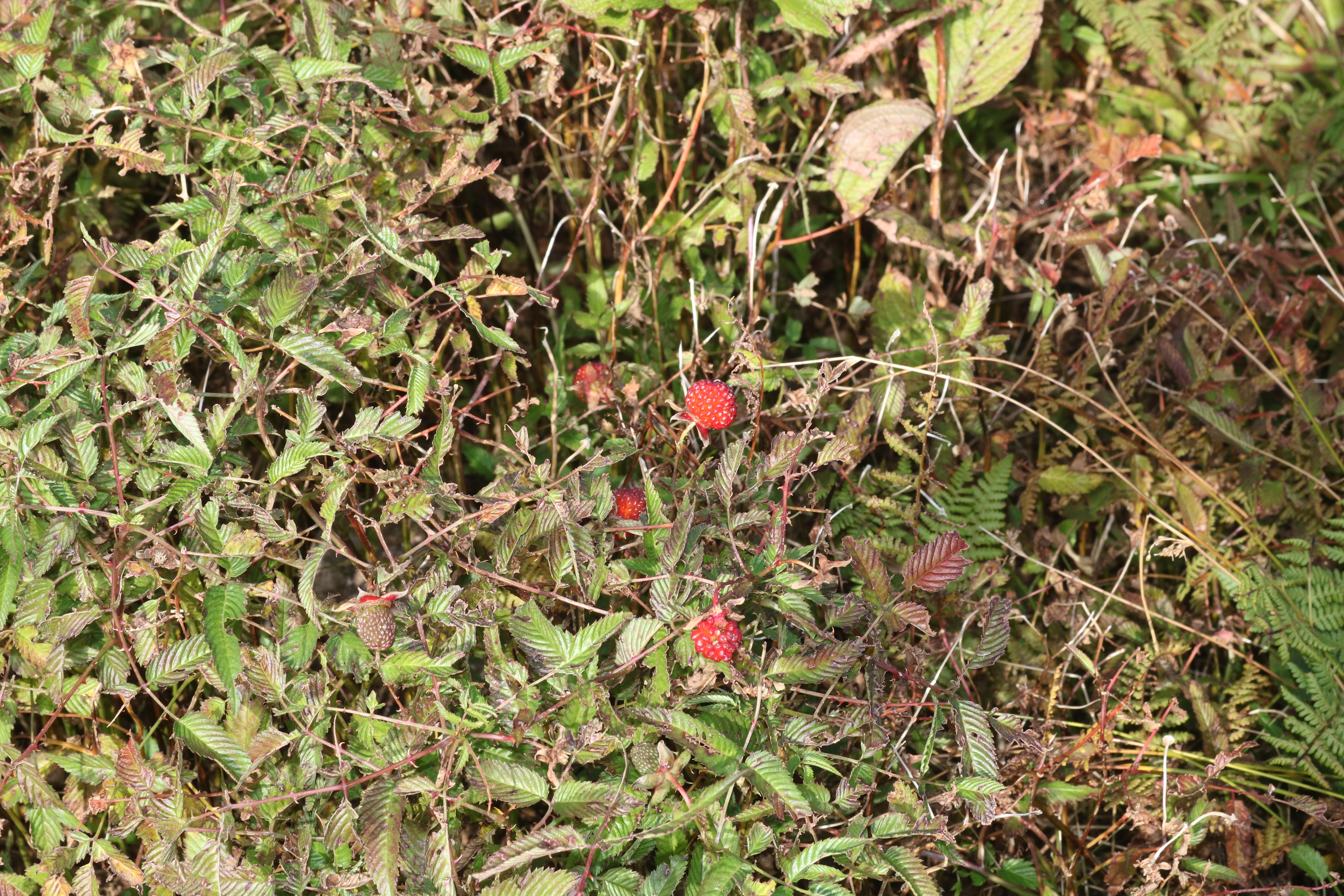 Rubus illecebrosus in Mount Oike, Suzuka Mountains, Higashiomi, Shiga Prefecture, Japan.